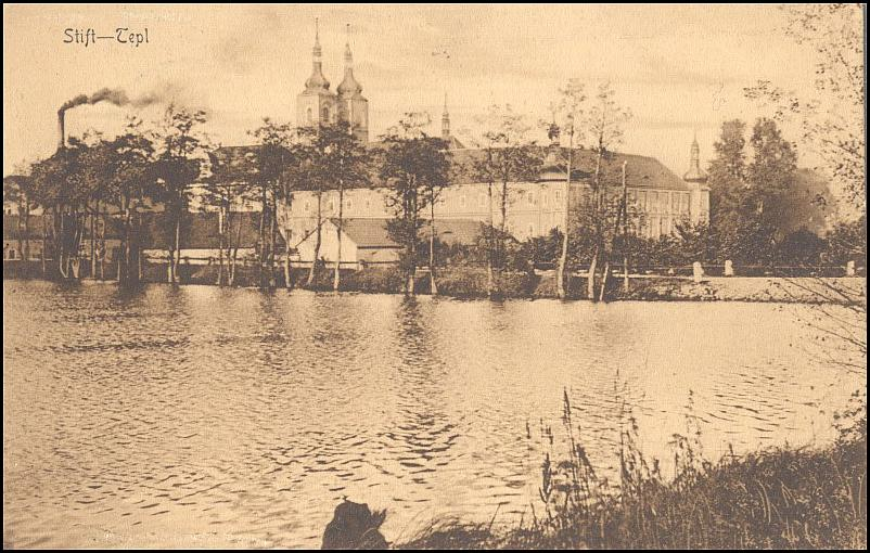 Teplá Monastery in 1920.